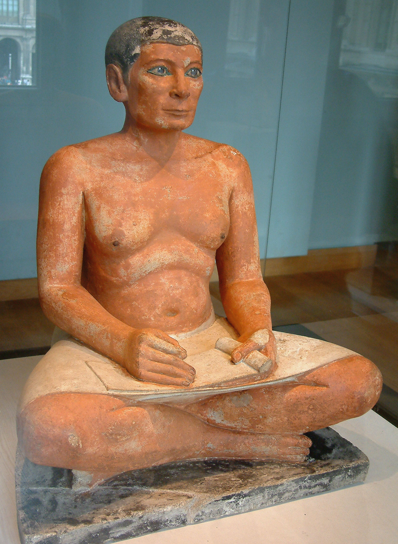 The so-called Seated Scribe. Painted limestone, eyes inlaid with rock crystal in copper, 4th or 5th dynasty of Egypt, 2600–2350 BC. From Saqqarah.